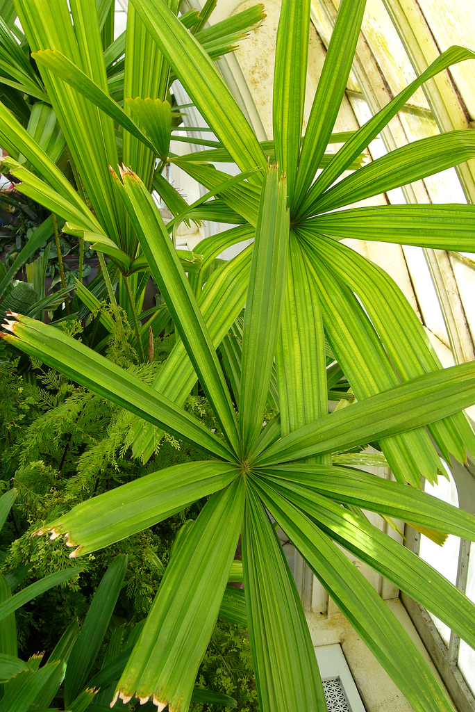 Licuala spinosa photographed at the Conservatory of Flowers, San Francisco